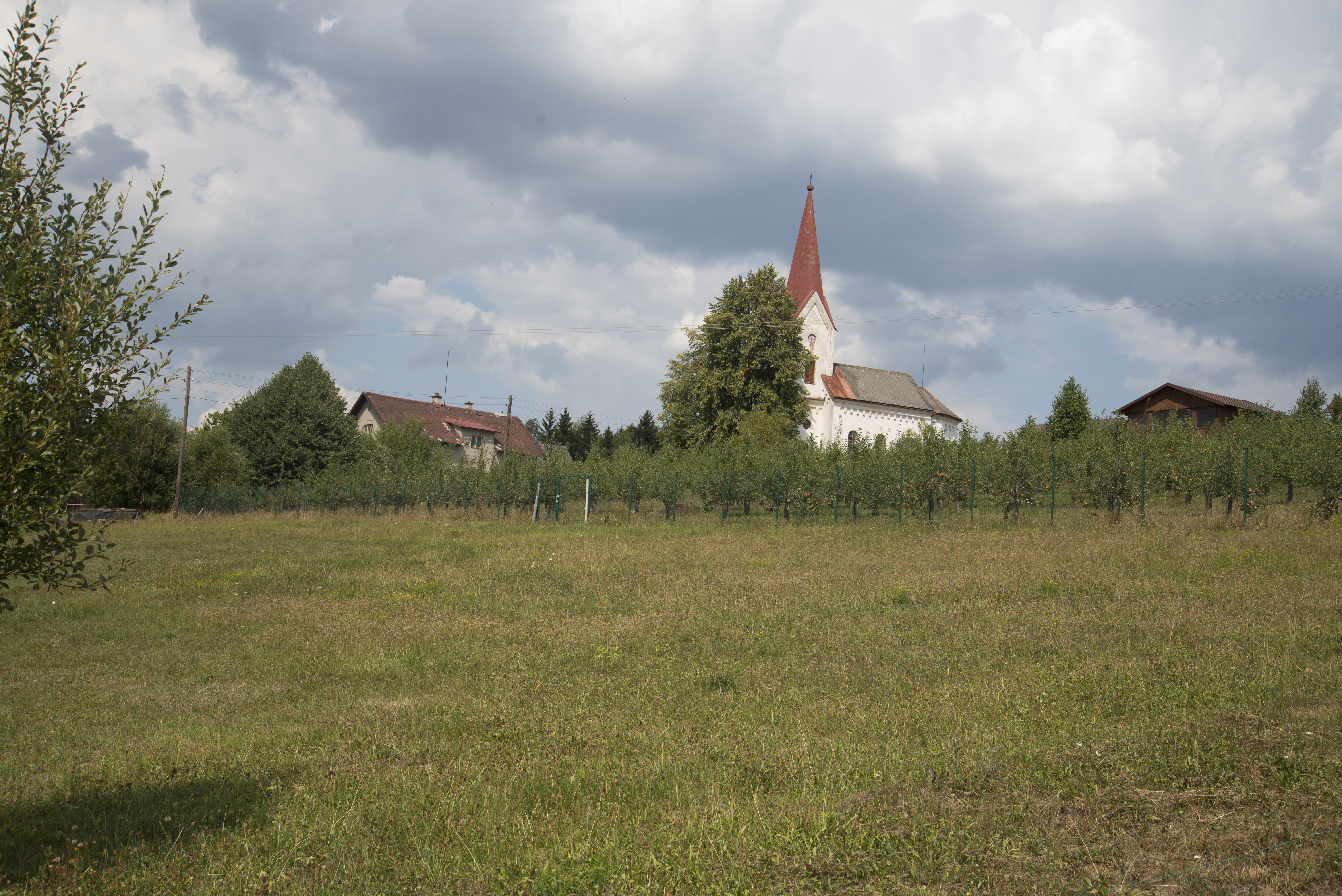 John of Nepomuk chapelVojtěšice, local part of city Jablonec nad Jizerou, Semily District, Liberec Region